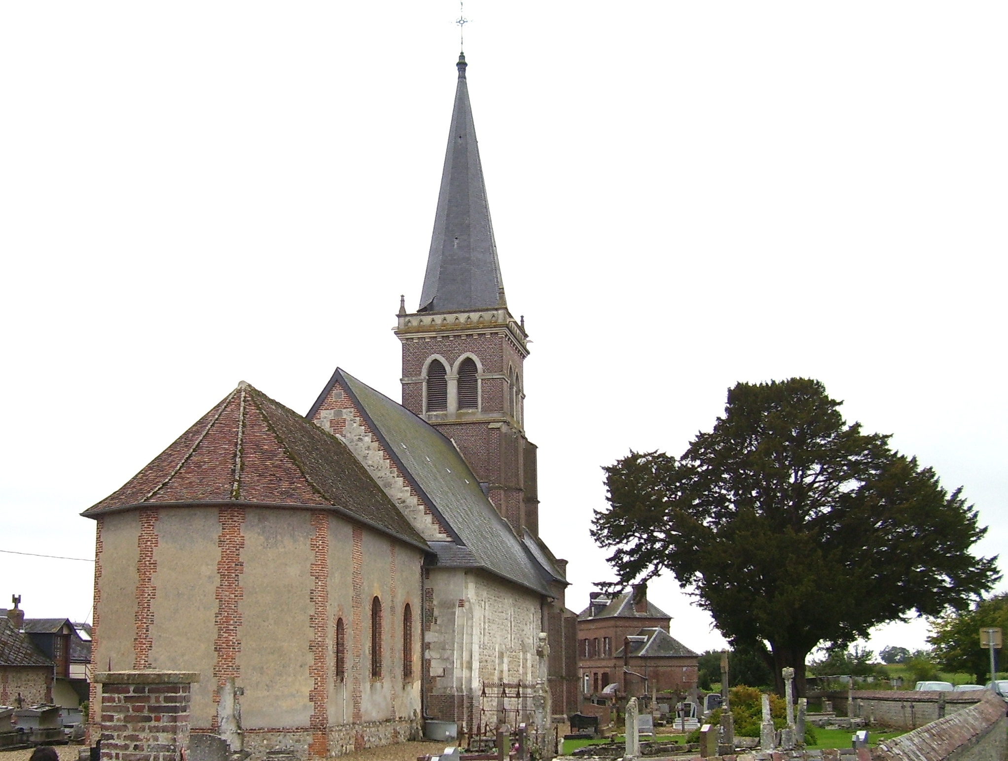 Church of Saint-Pierre-de-Salerne (Eure, Haute-Normandie, France).